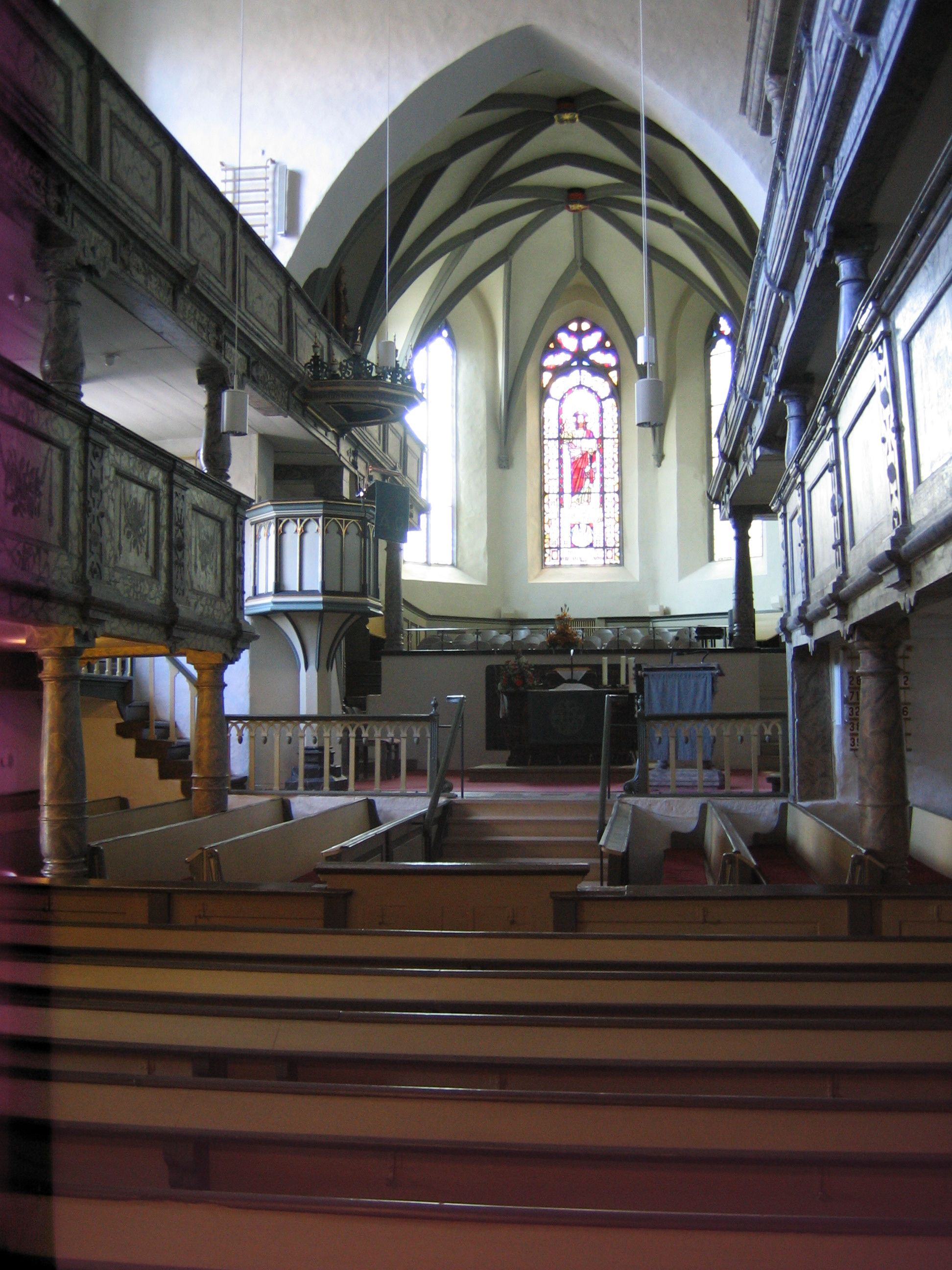 Evangelische Stadtkirche